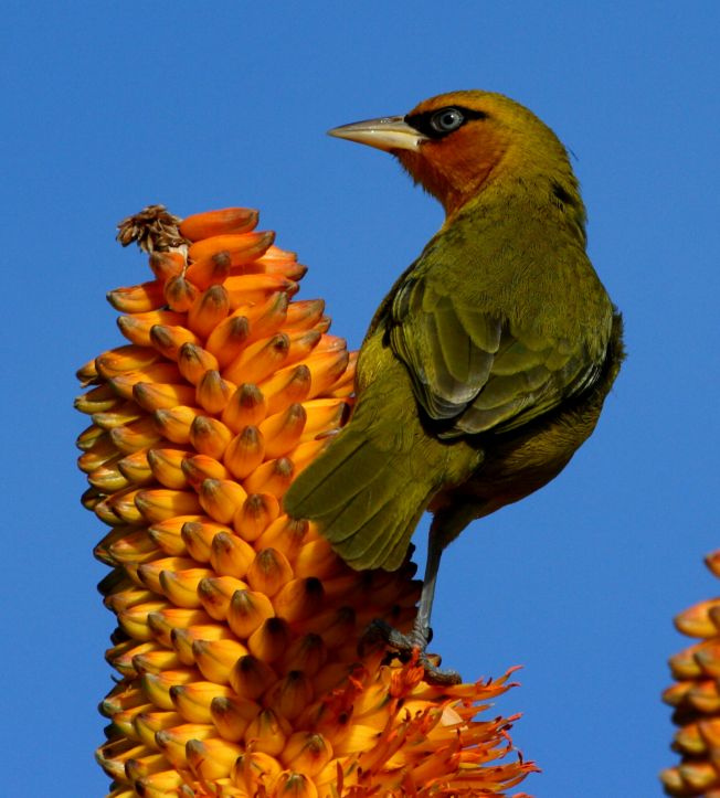 An adult female Spectacled Weaver in Umhlanga, KwaZulu-Natal, South Africa.